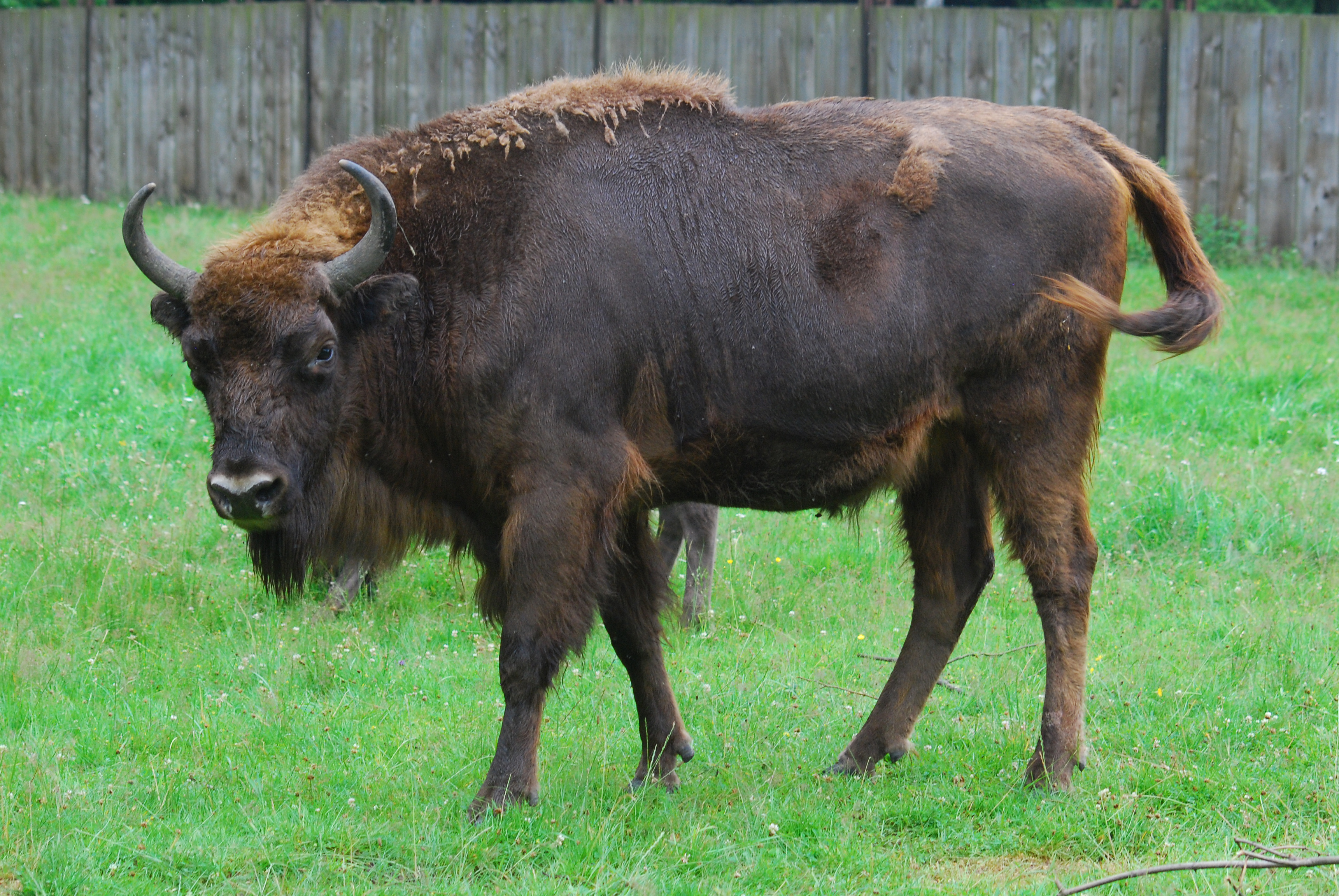 This photo from Podlaskie Voievodeship was taken during Polish Wikiexpedition 2009 set up by Wikimedia Polska Association. The making of this document was supported by Wikimedia Polska. Bison bonasus